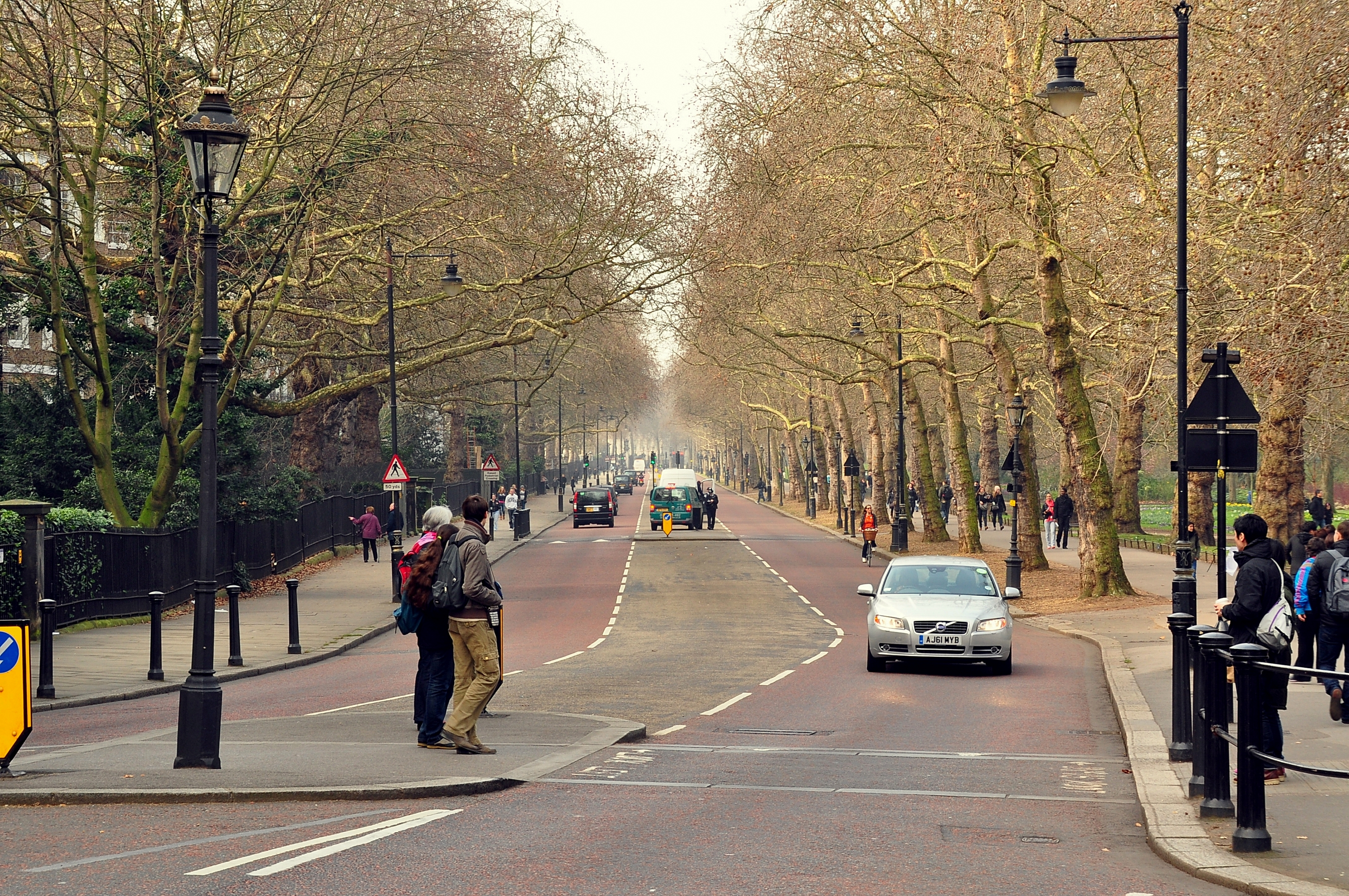 Birdcage Walk, alongside St James' Park in the City of Westminster